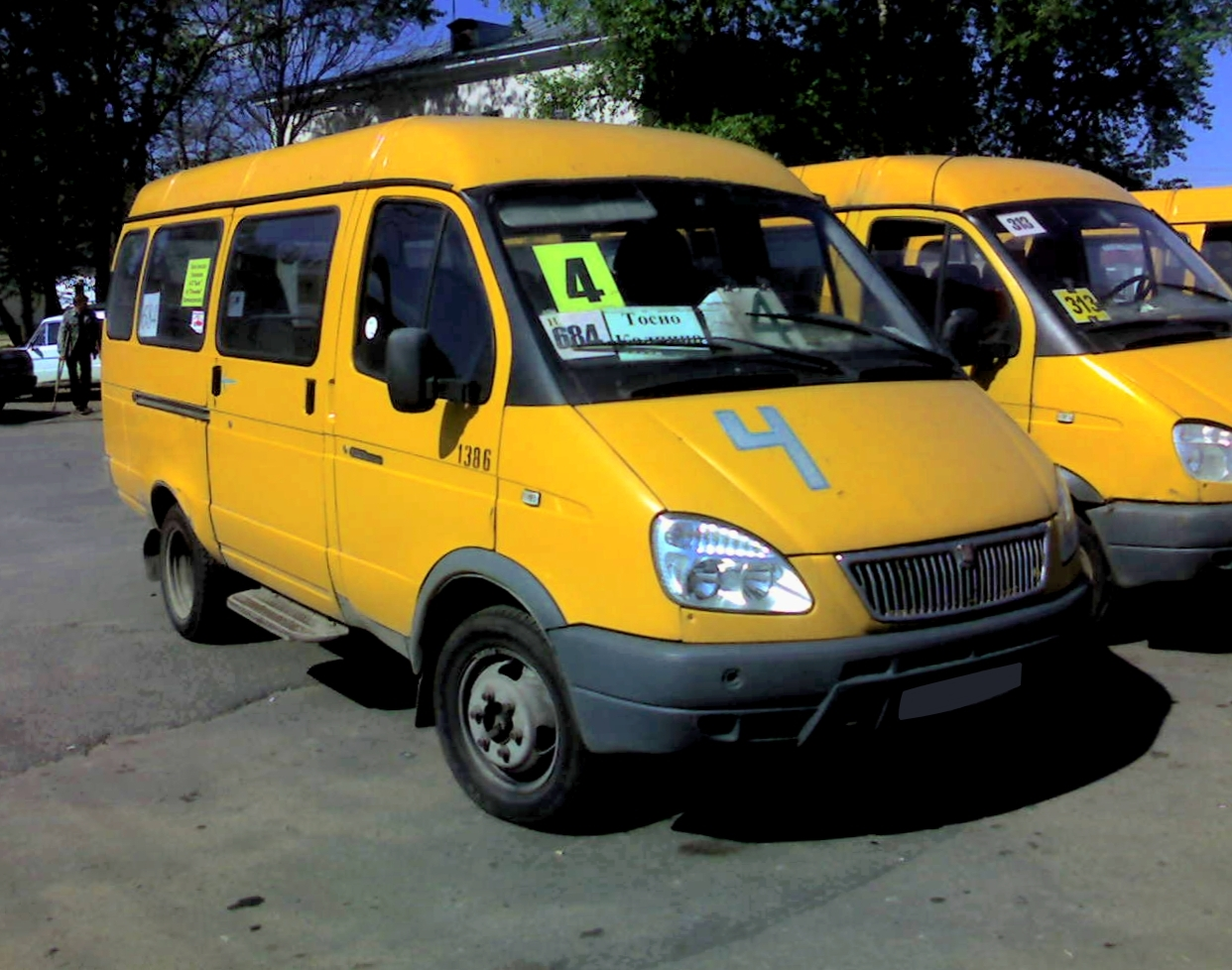 GAZelle bus (#1386) in Tosno, Russia. OOO "Piteravto" operator.